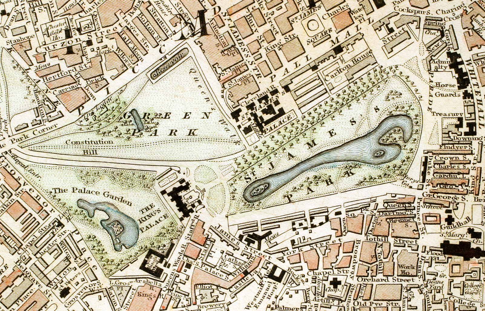 Green Park, St. James's Park and Buckingham Palace section of "Improved map of London for 1833, from Actual Survey. Engraved by W. Schmollinger, 27 Goswell Terrace", photographed for Wikipedia by User:Pointillist. All rights of the photographer are hereby released. The monarch at the time the map was published was William IV.